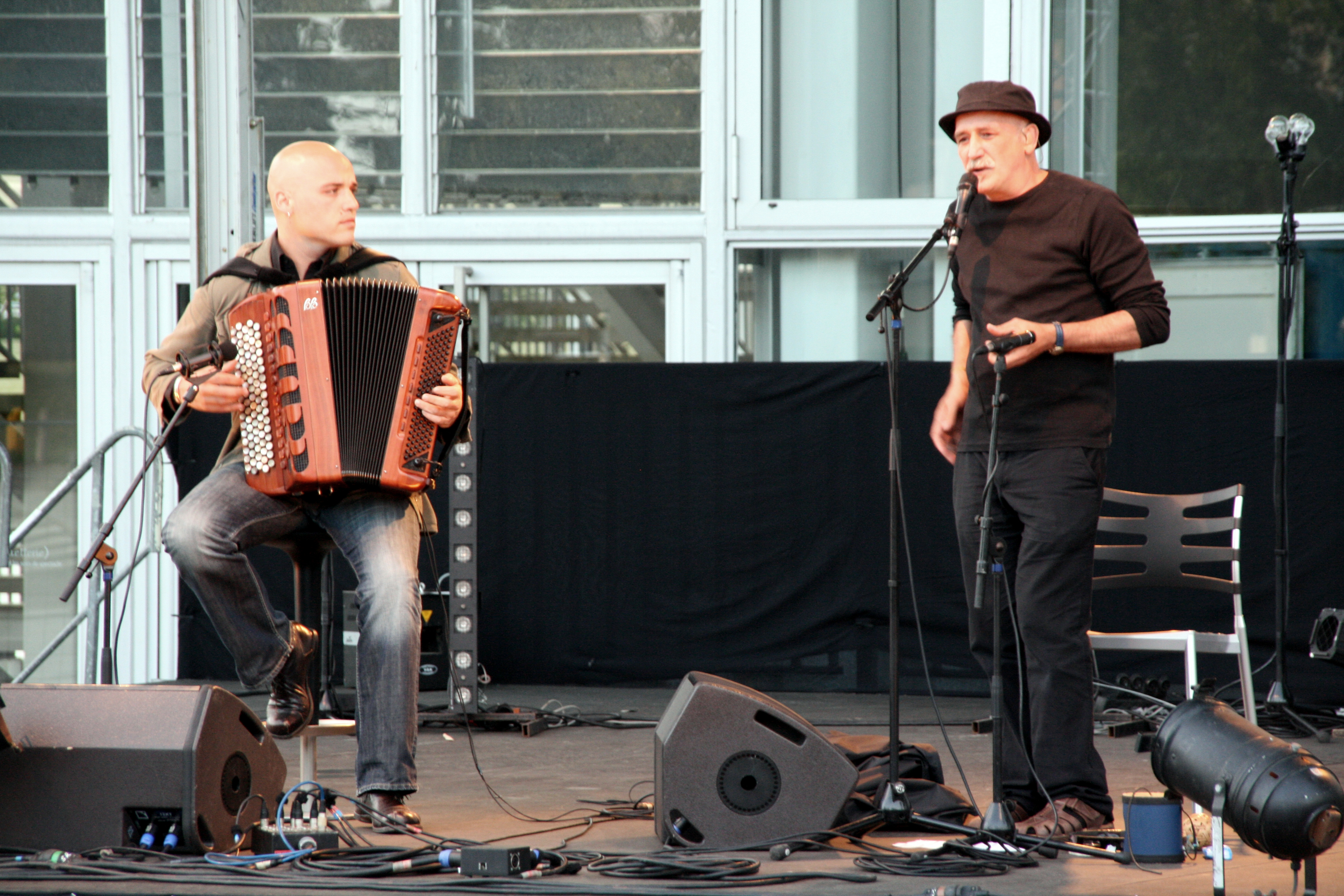 French singer André Minvielle and the accordionist Lionel Suarez. Concert in Angers, France, during Temporives festival.